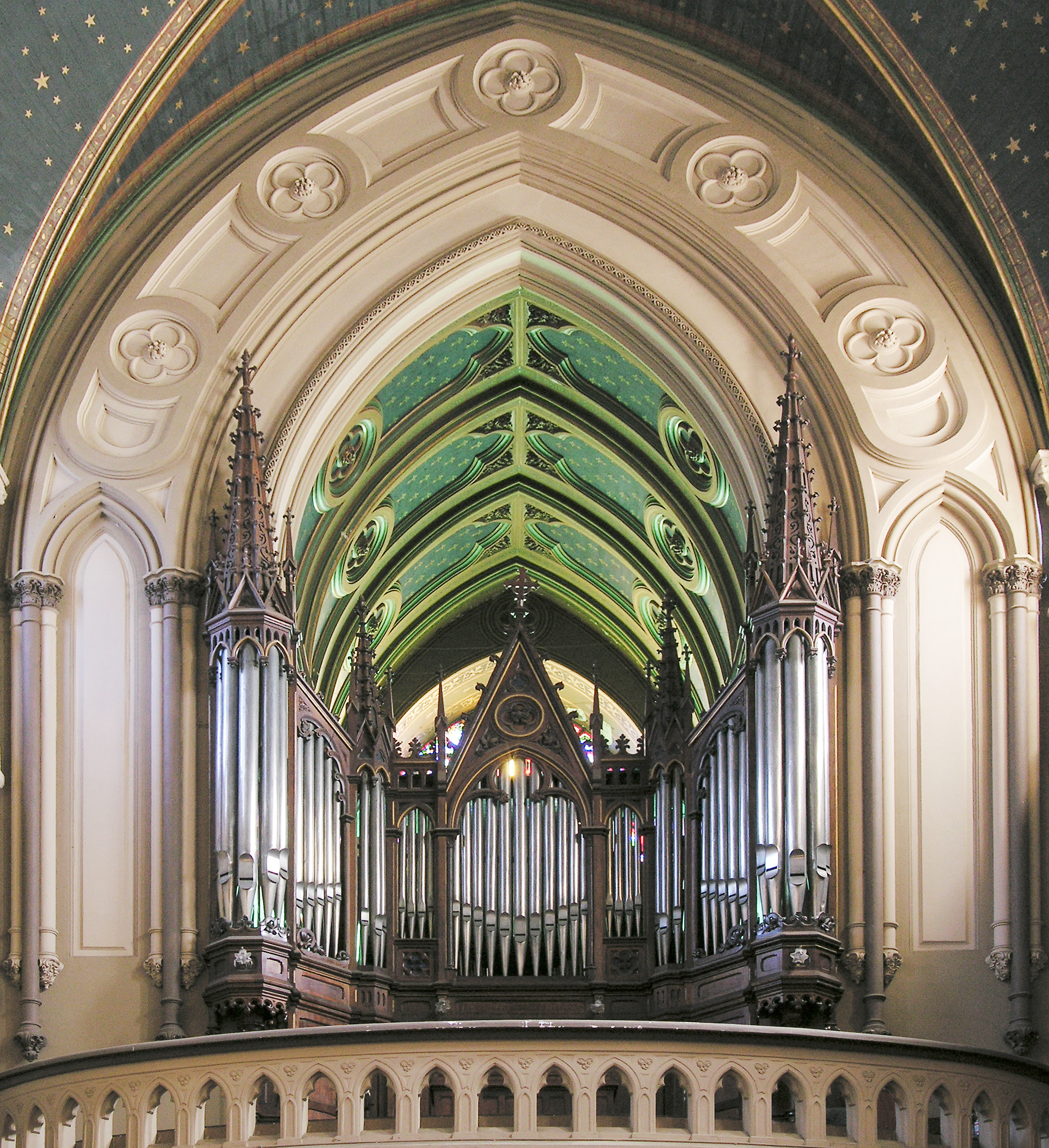 Organ of the Church of SS.CC.